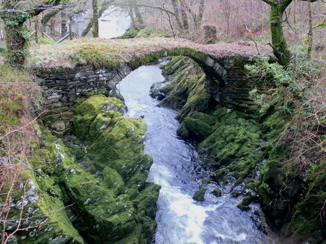 Pont Rhyd-y-Gynnen This is another name for the "Roman" bridge near Penmachno woollen mill. It is the last bridge before the Machno joins the Conwy.